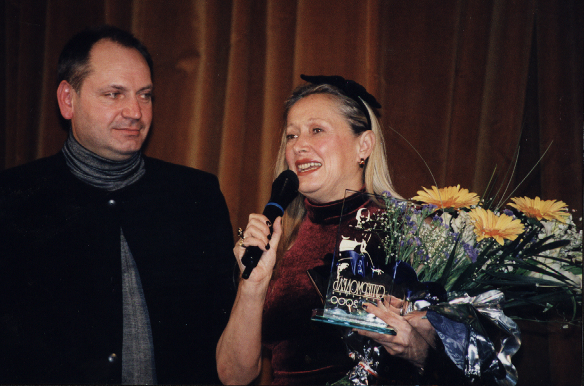 Tatiana Michalkova on Supermodel-2000 in Minsk (Belarus), 2000 AD